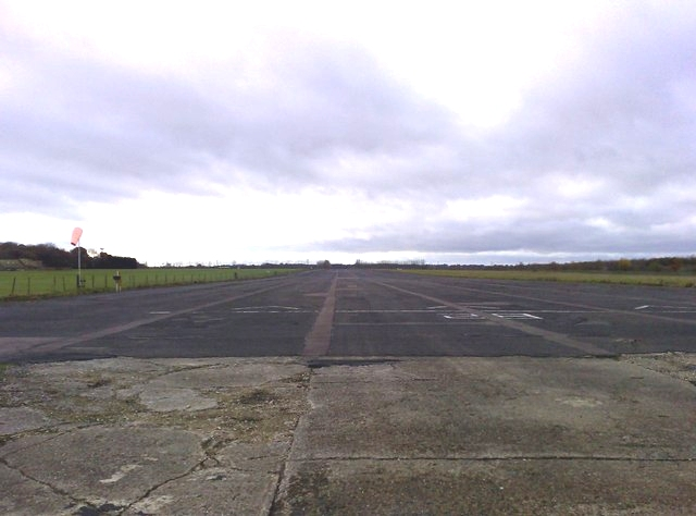 Landing Strip, nr Tingewick